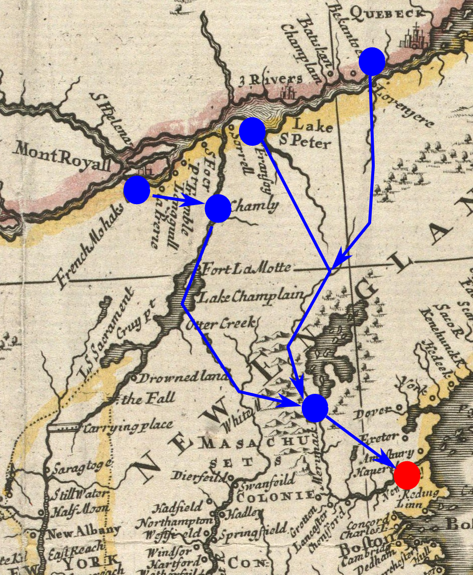 Detail from a 1719 map, annotated to show the routes taken (or expected to be taken) by French and Indian forces that raided Haverhill, Massachusetts in 1708. Haverhill is marked in red; the routes of the French and Indians, and their rendezvous and starting points, are marked in blue.